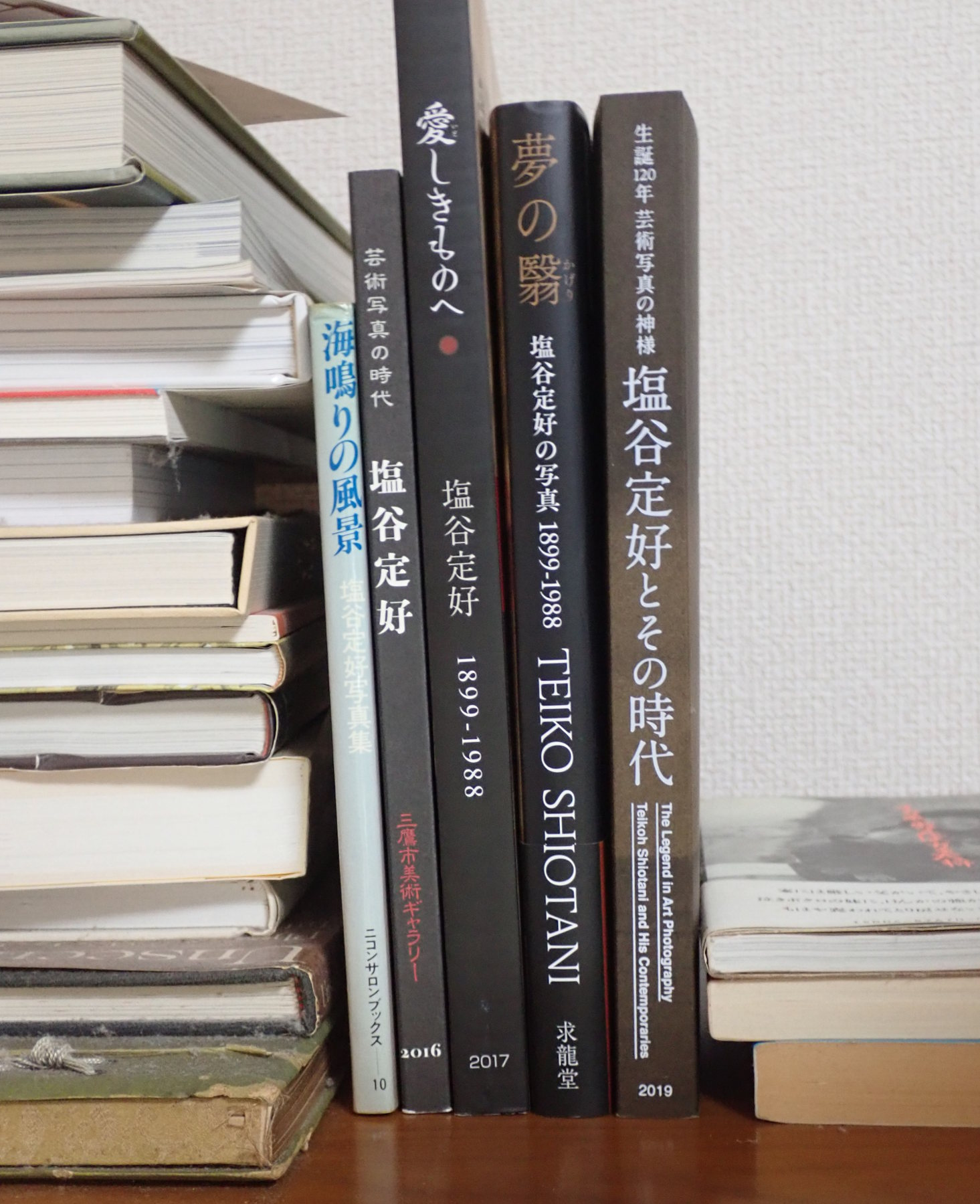 Five of the six (so far) books of photographs by Teikō Shiotani. (The books in piles are unrelated. The spine of the leftmost book by Shiotani is much faded.)